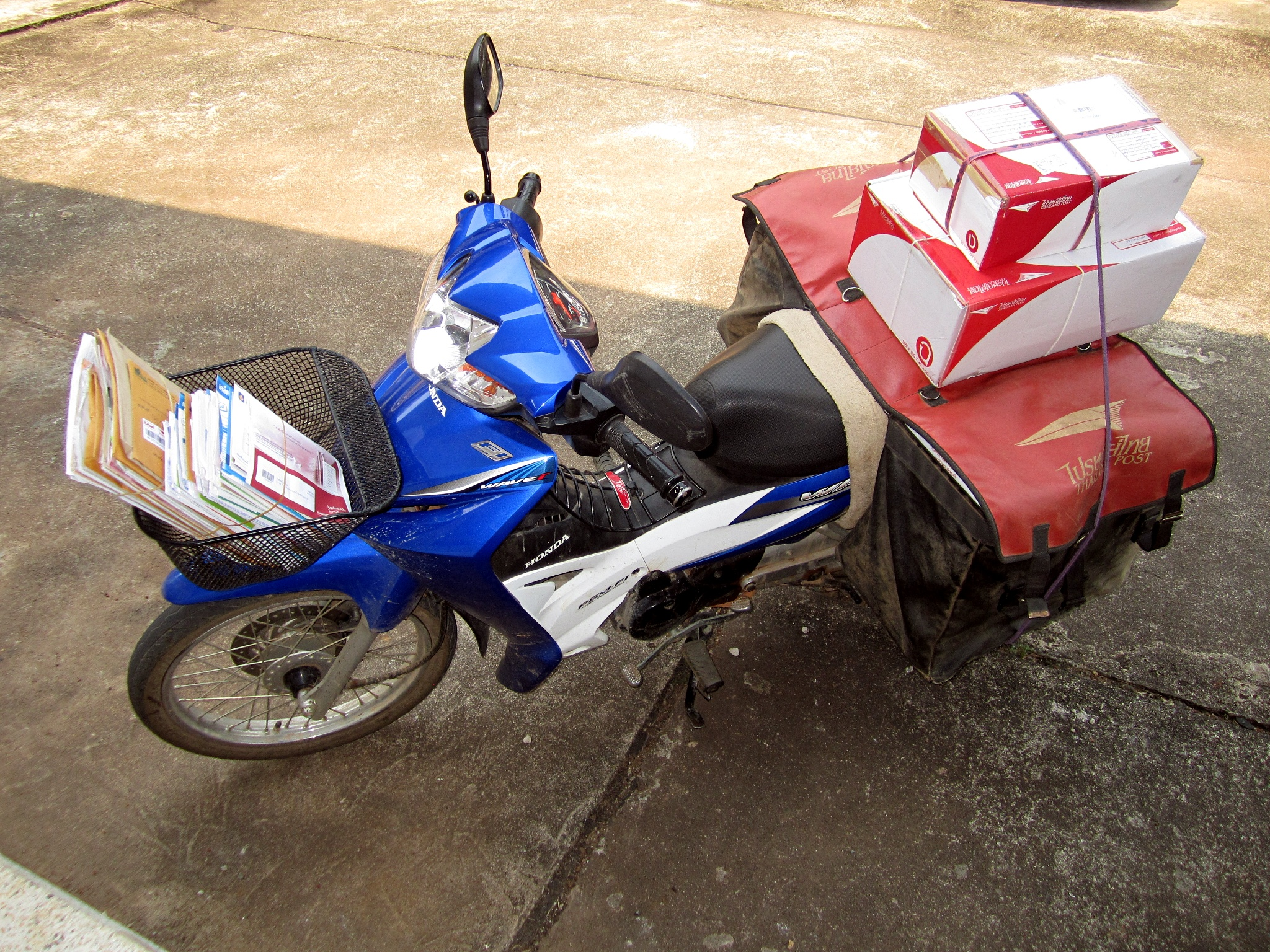 A Honda Wave 110i used as a delivery bike by Thailand Post in Trat Province.